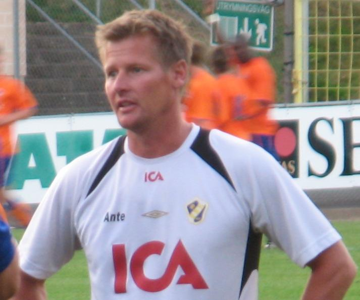 Jonas Wirmola in 2008